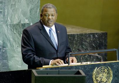 Photo de Winston Baldwin Spencer au Nations Unies à New York